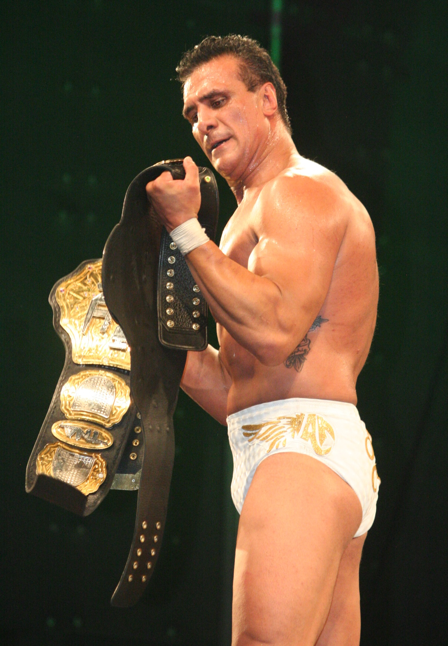 Alberto El Patron after becoming Unified GFW World Heavyweight Champion